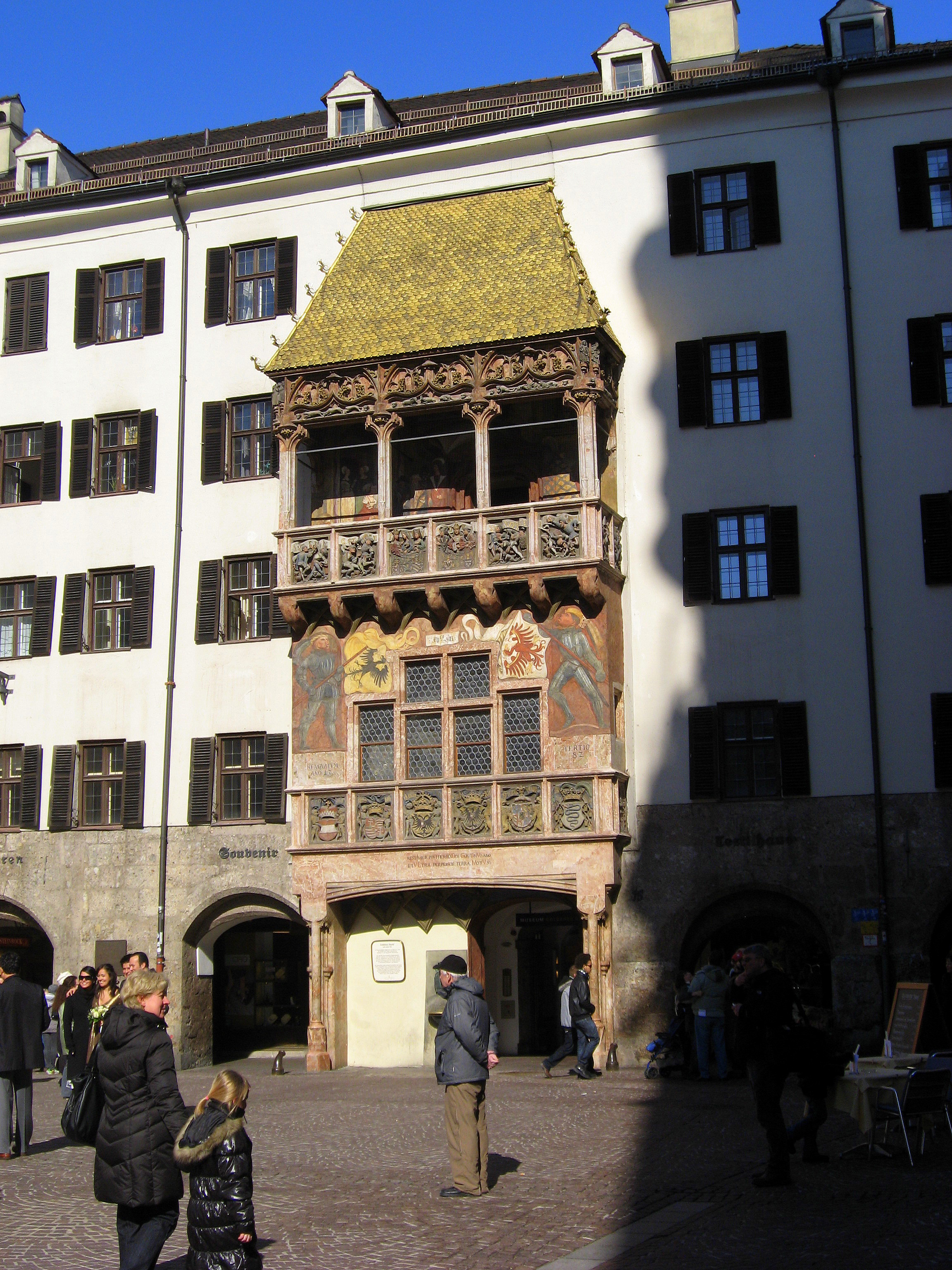 People walk past the Golden Roof in Innsbruck, Austria Feb. 28, 2009. The roof contains 2,738 gold-plated copper tiles and is the most popular tourist attraction in Innsbruck.